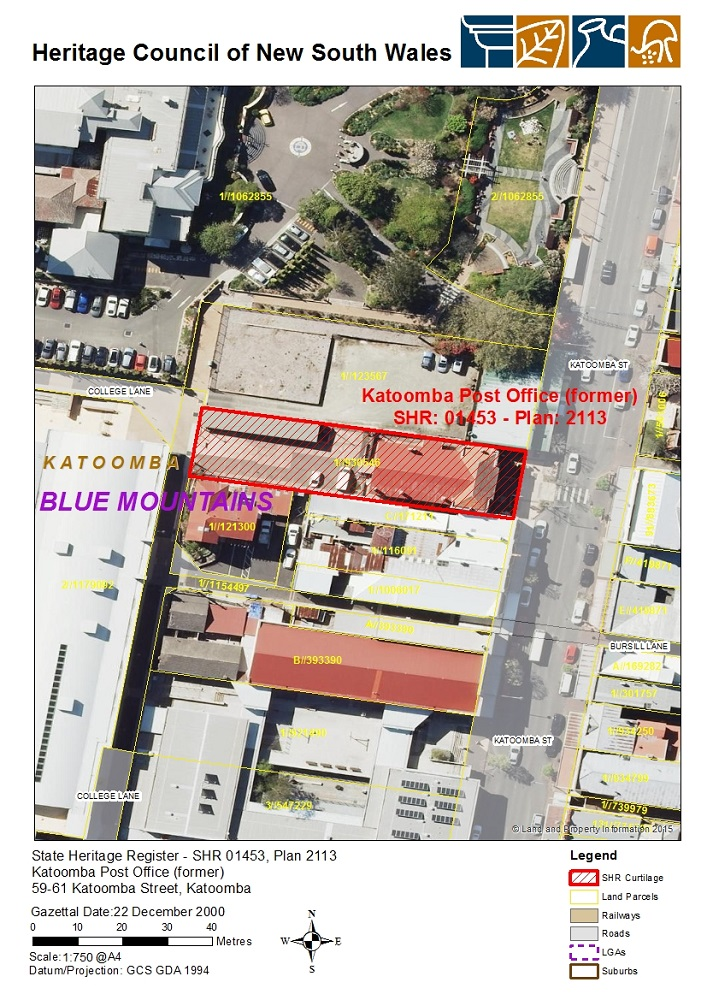 Katoomba Post Office: SHR Plan 2113